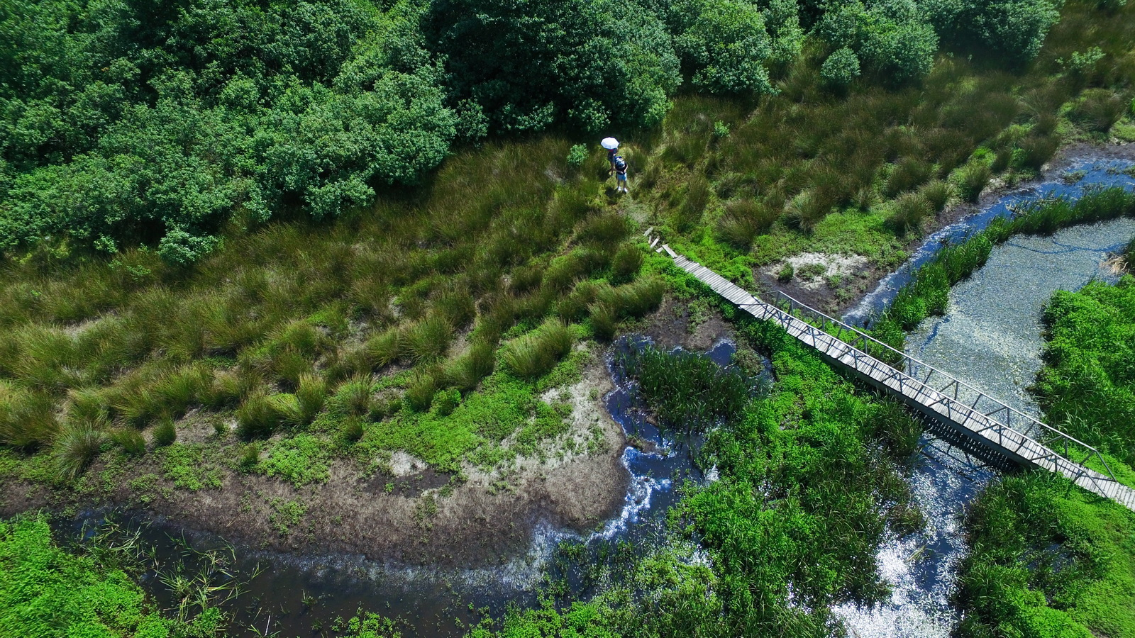 DCIM\100MEDIA\DJI_0099.JPG